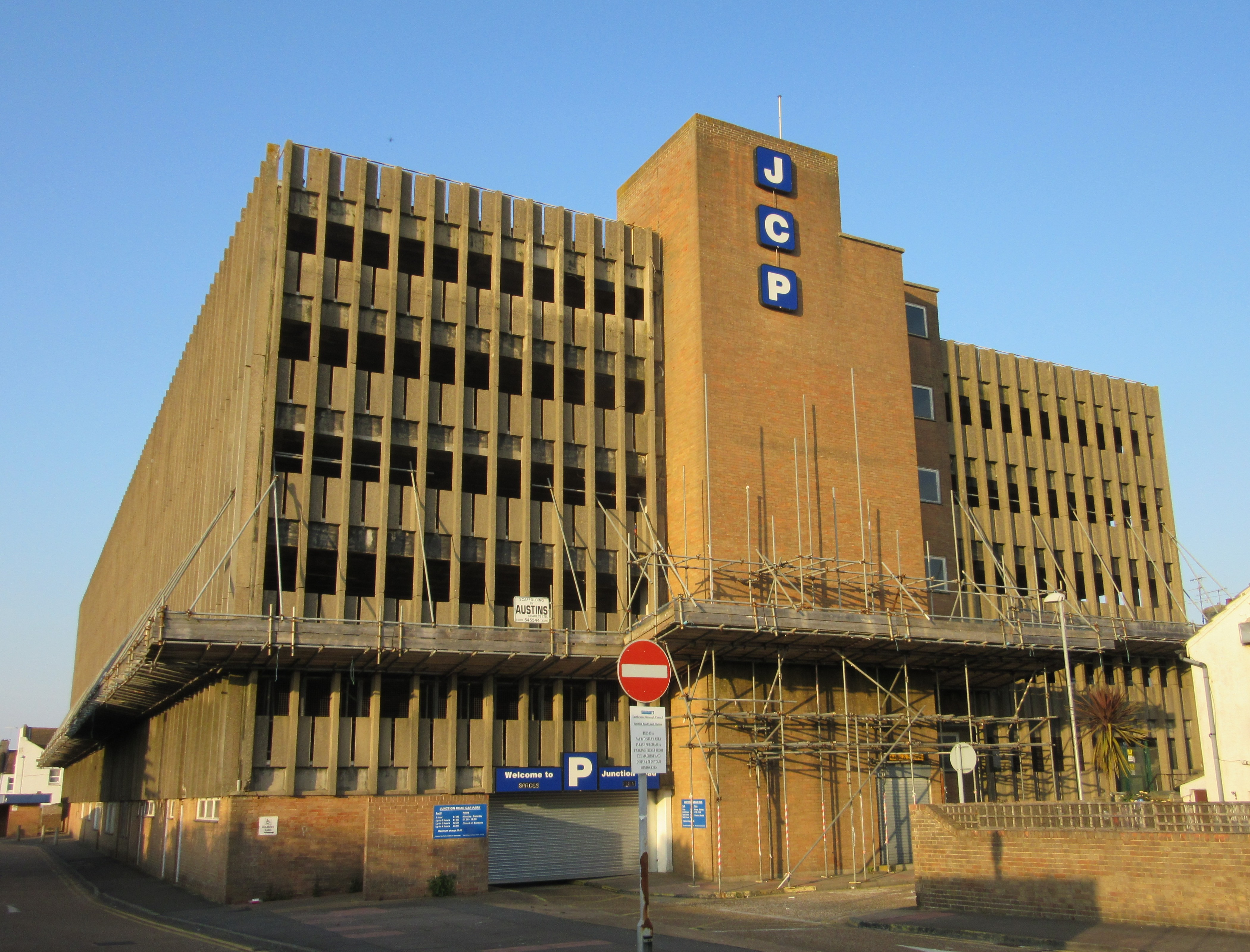 Multi-storey car park at Junction Road, Eastbourne, East Sussex, England. A typical example of a concrete-built 1960s town-centre car park.